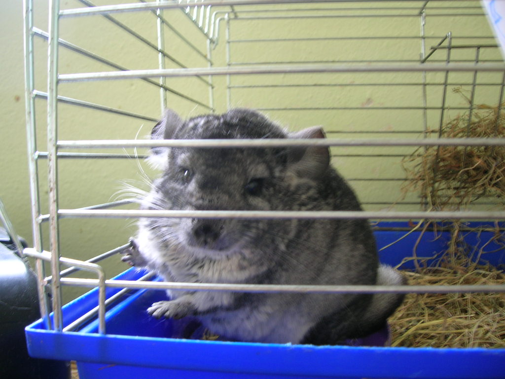 chinchilla in a cage